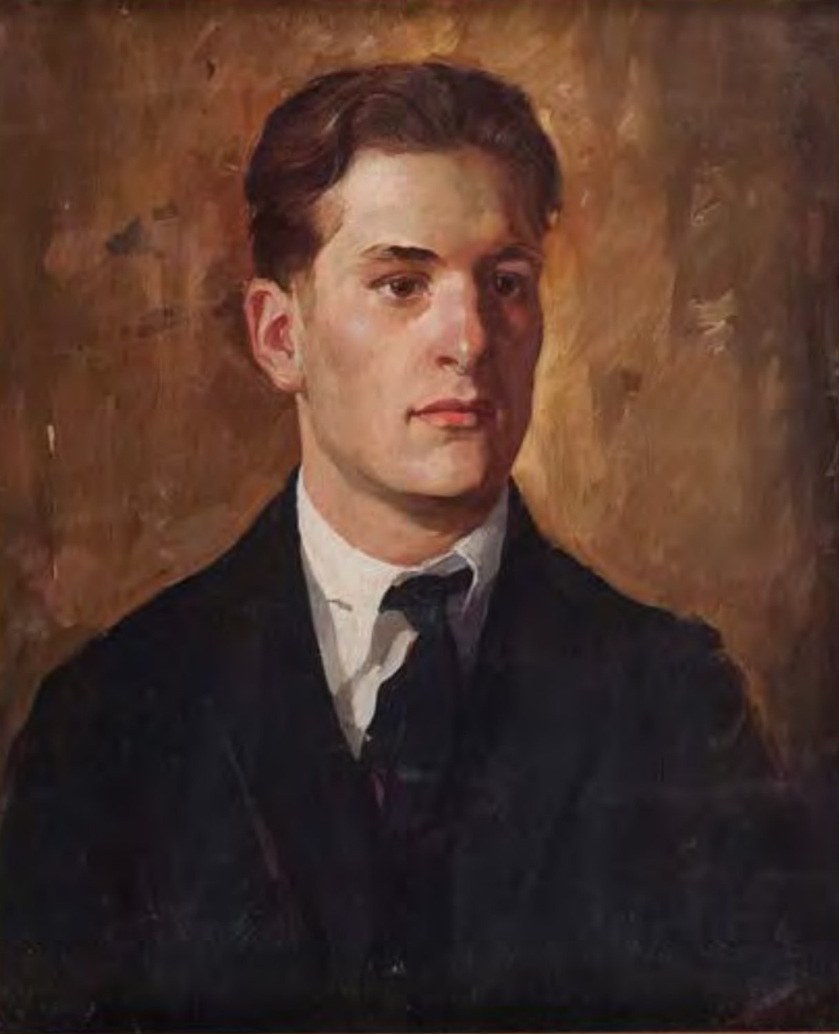 Portrait of a Young Man. This painting by Wilbur G. Adam is of fellow Art Academy of Cincinnati student Paul Childlaw